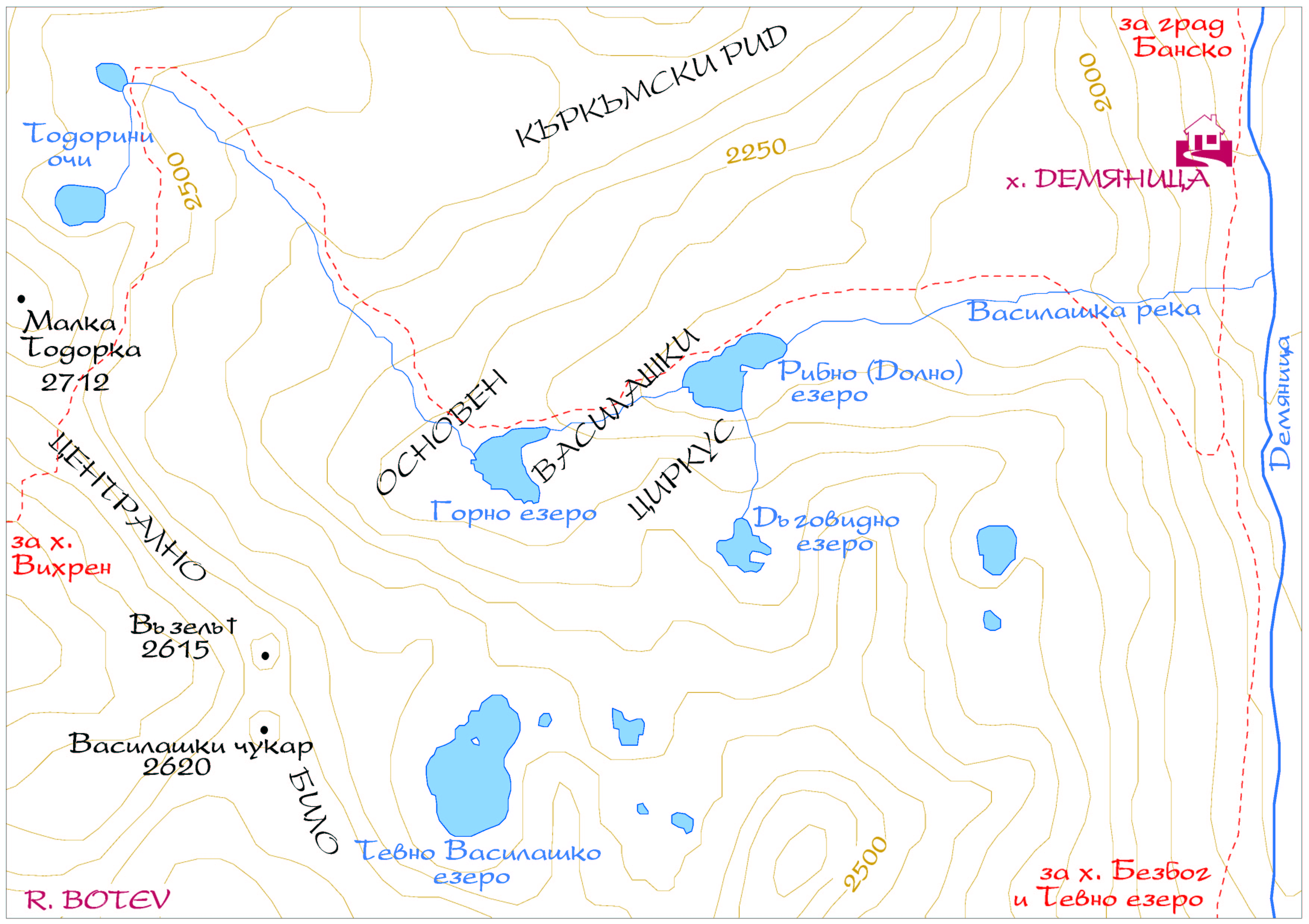 Map of the Vasilashki Lakes, Pirin, Bulgaria